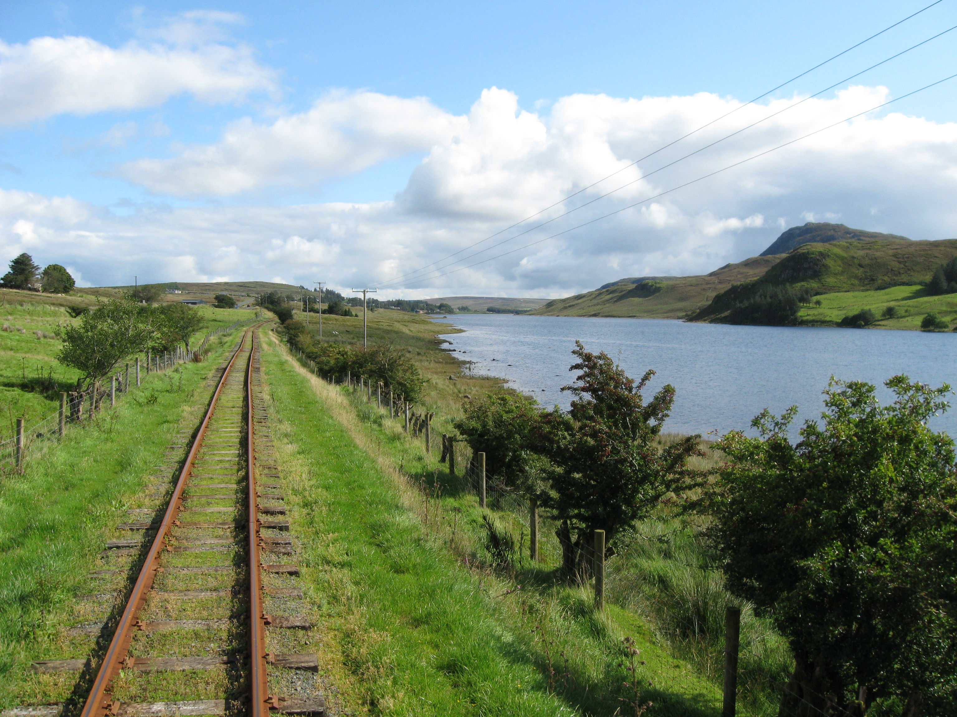 Fintown Railway on trackbed of CDR County Donegal Railway, Lough Finn